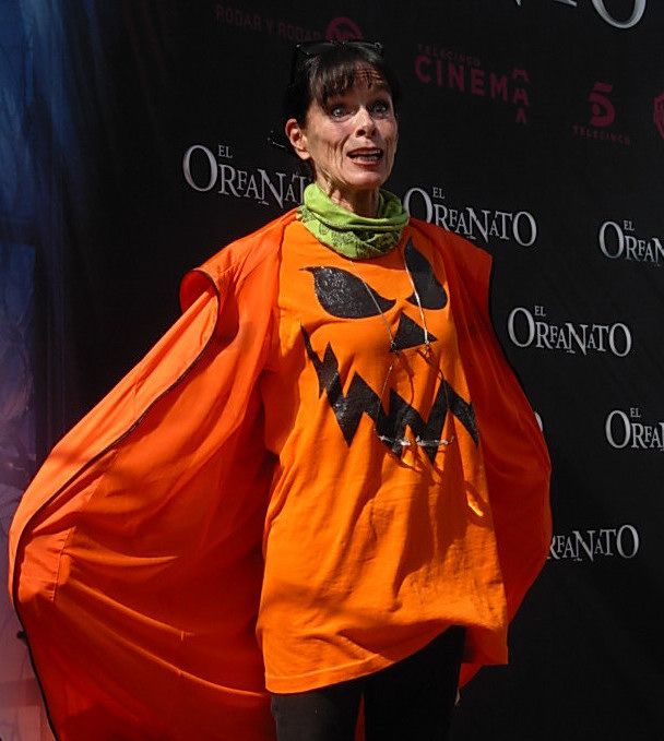 Actress Geraldine Chaplin at the presentation of film The Orphanage in Madrid (Spain).